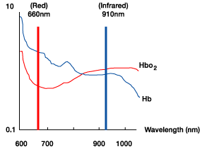 Isosbestic point graphic used in oxymetry. The spelling isobestic used in the above file name appears to be a typo. Correct spelling is isosbestic.